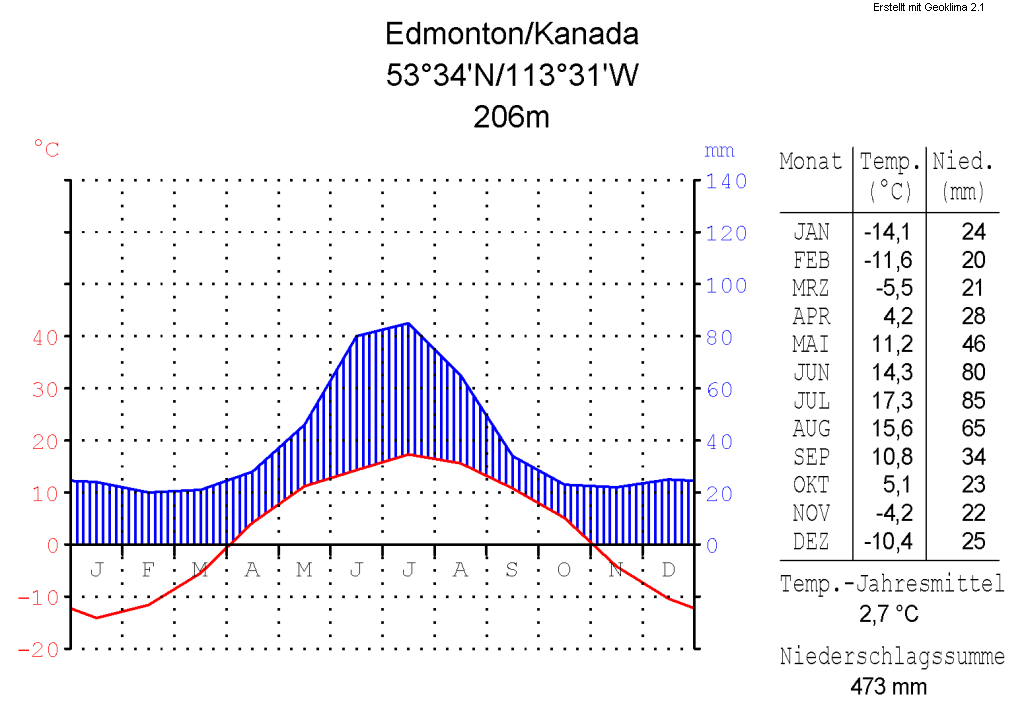 climate chart in the format by Walther and Lieth, metric, °Celsisus and millimeters, made with Geoklima 2.1